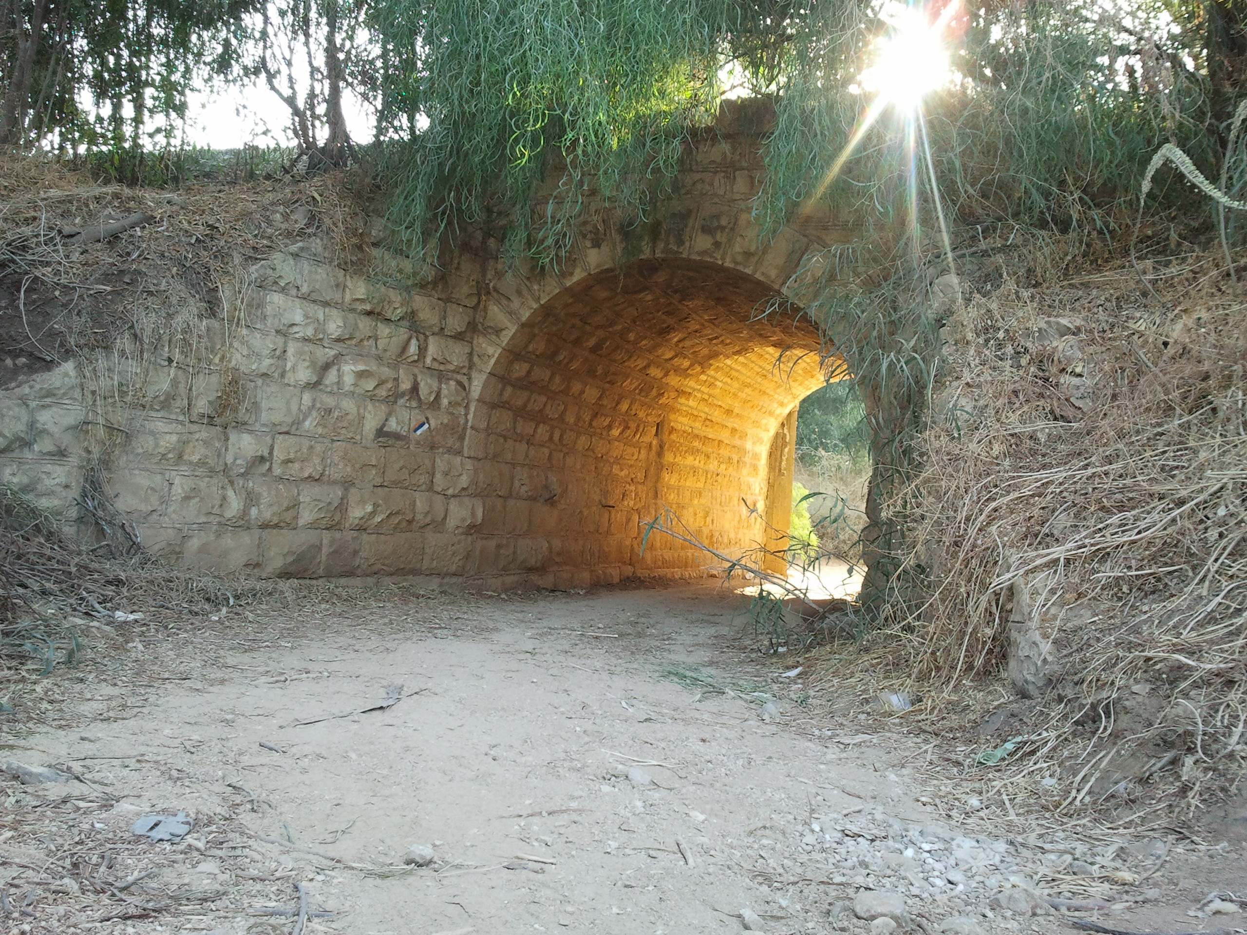 A railway bridge built by the turkish during the first world war as part of the railway to Beer sheba. It is now used for fright trains.